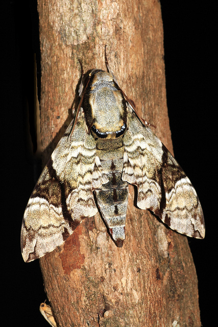 Megacorma obliqua. Borneo, Trusmadi area.